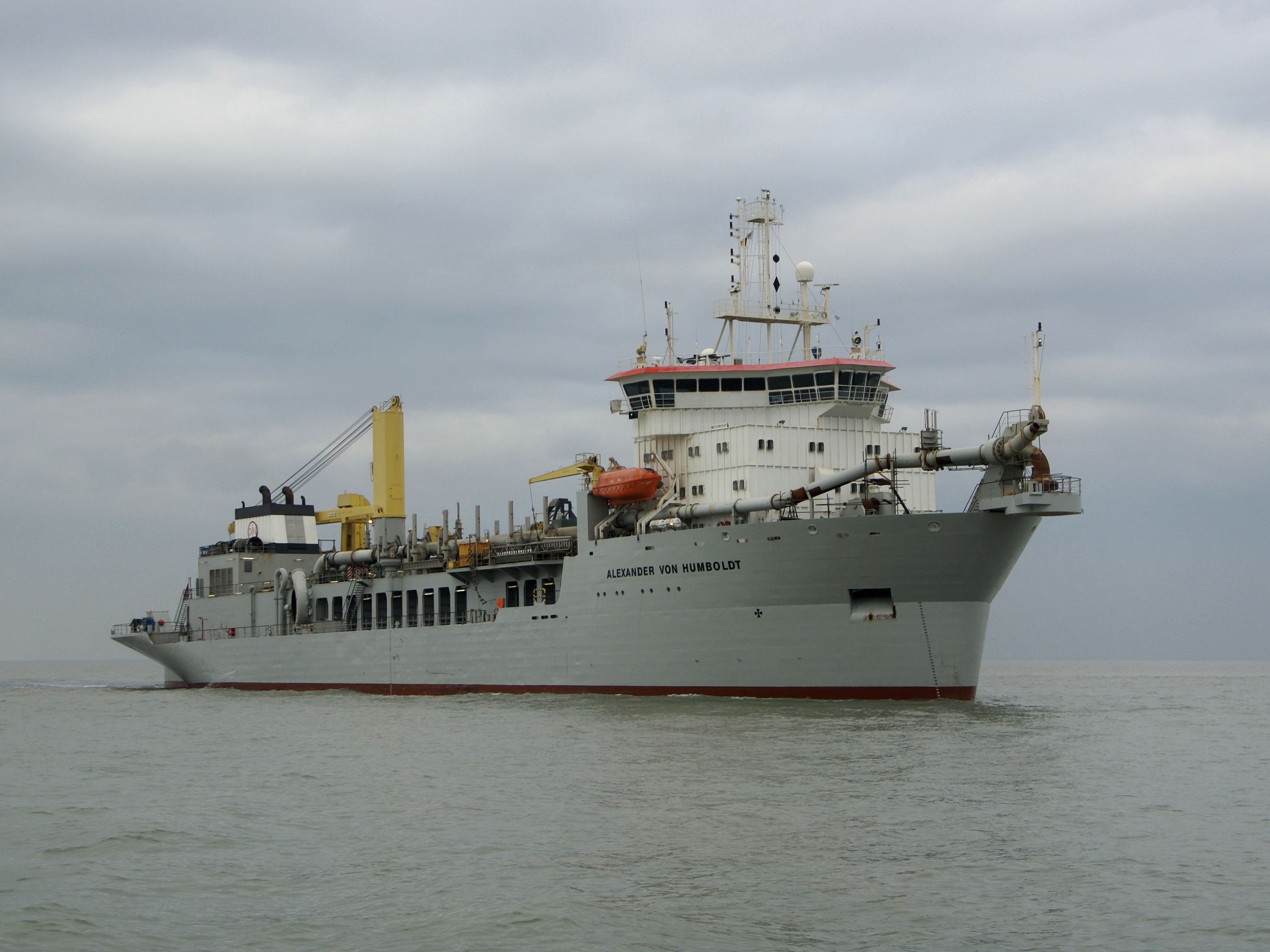 The trailing suction hopper dredger Alexander von Humboldt, after dumping dredged material off Zeebrugge, Belgium. IMO Number: 9166845 MMSI Number: 253114000 Callsign: LXAH Total installed power 13,980 kW Hopper capacity 9,000 m³ Length 120.5 m Breadth 24.4 m Draught 8.9 m Speed 14,5 kn Suction pipe 1 x 1,300 mm Dredging depth 38.0 m